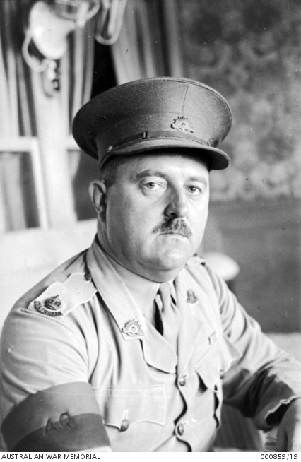 Portrait of Major (later Lieutenant General) Rudolph Bierwirth, an officer in the Second Australian Imperial Force, on board a troopship en route to North Africa.